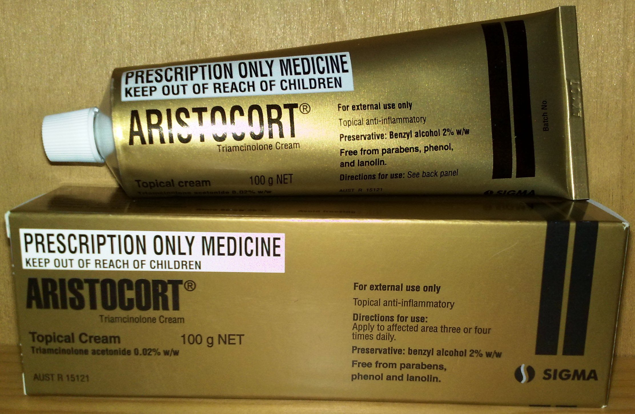 Aristocort